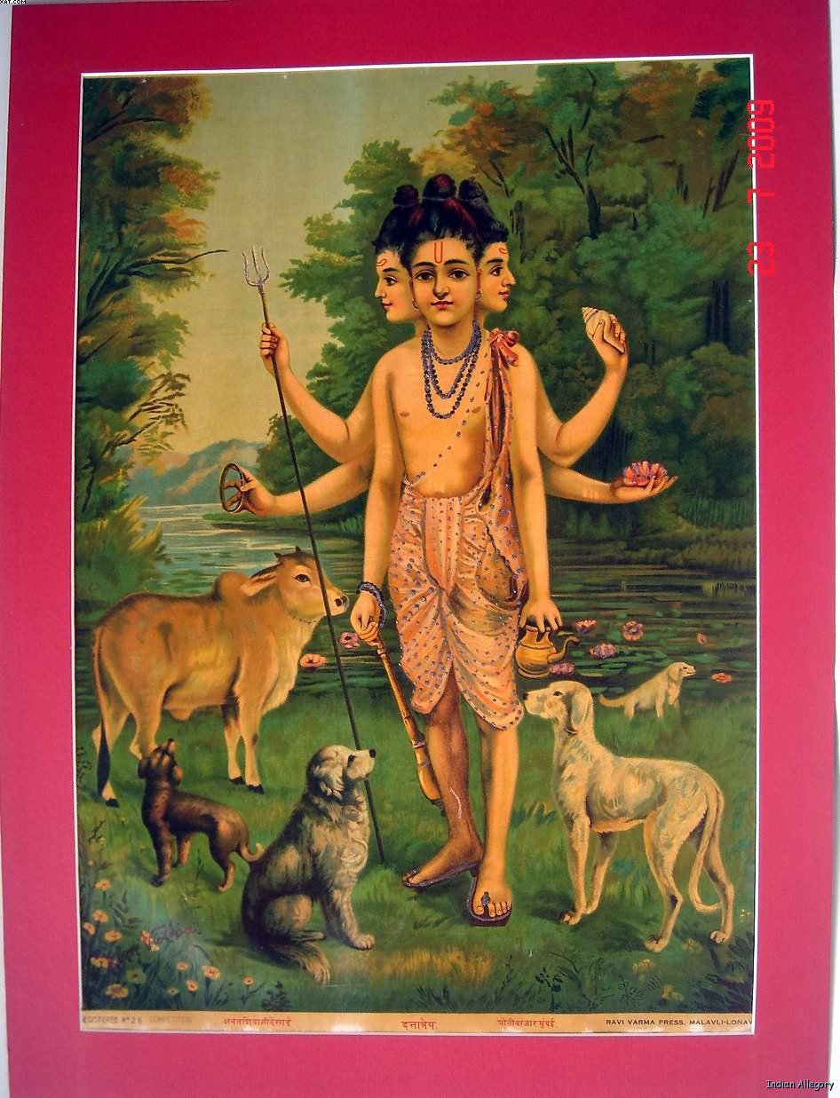 a depiction of Dattatreye from the Ravi Varma studio, c.1910's